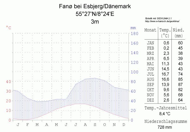 climate chart in the format by Walther and Lieth, metric, °Celsisus and millimeters, made with Geoklima 2.1